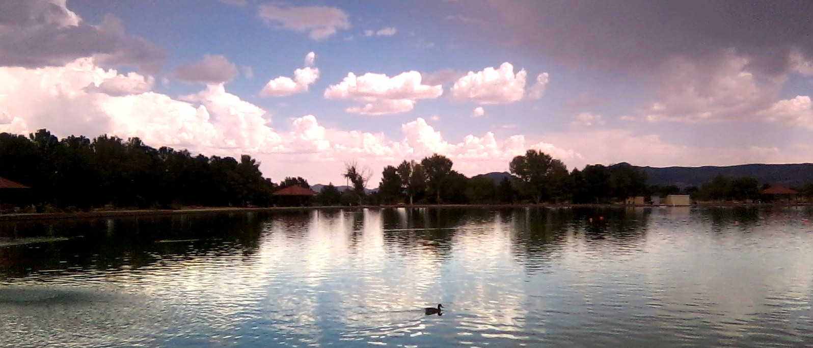 Pond, Sunset Park, Las Vegas, NV